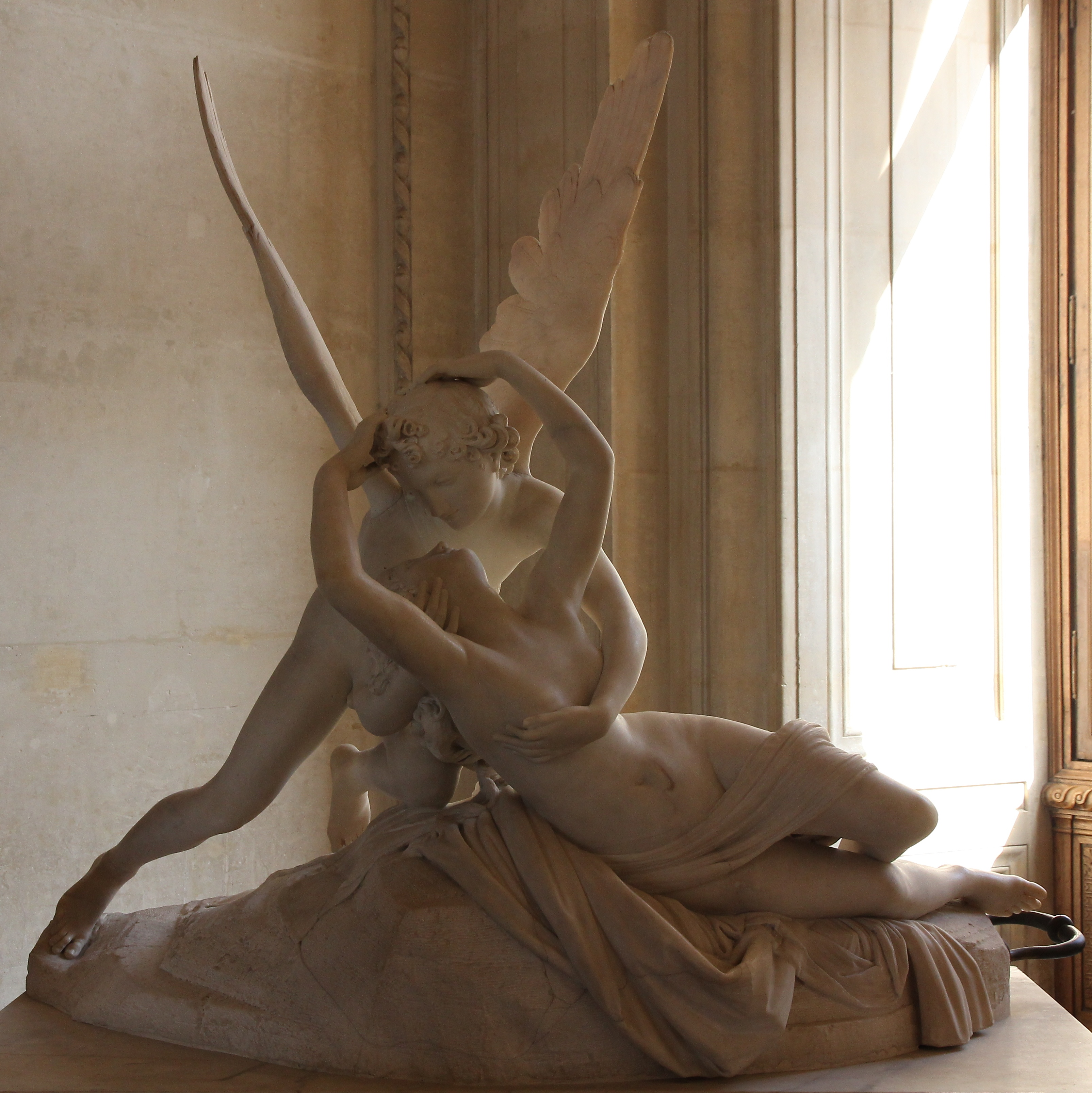 Amor (Cupid) kisses Psyche by Antonio Canova, Louvre